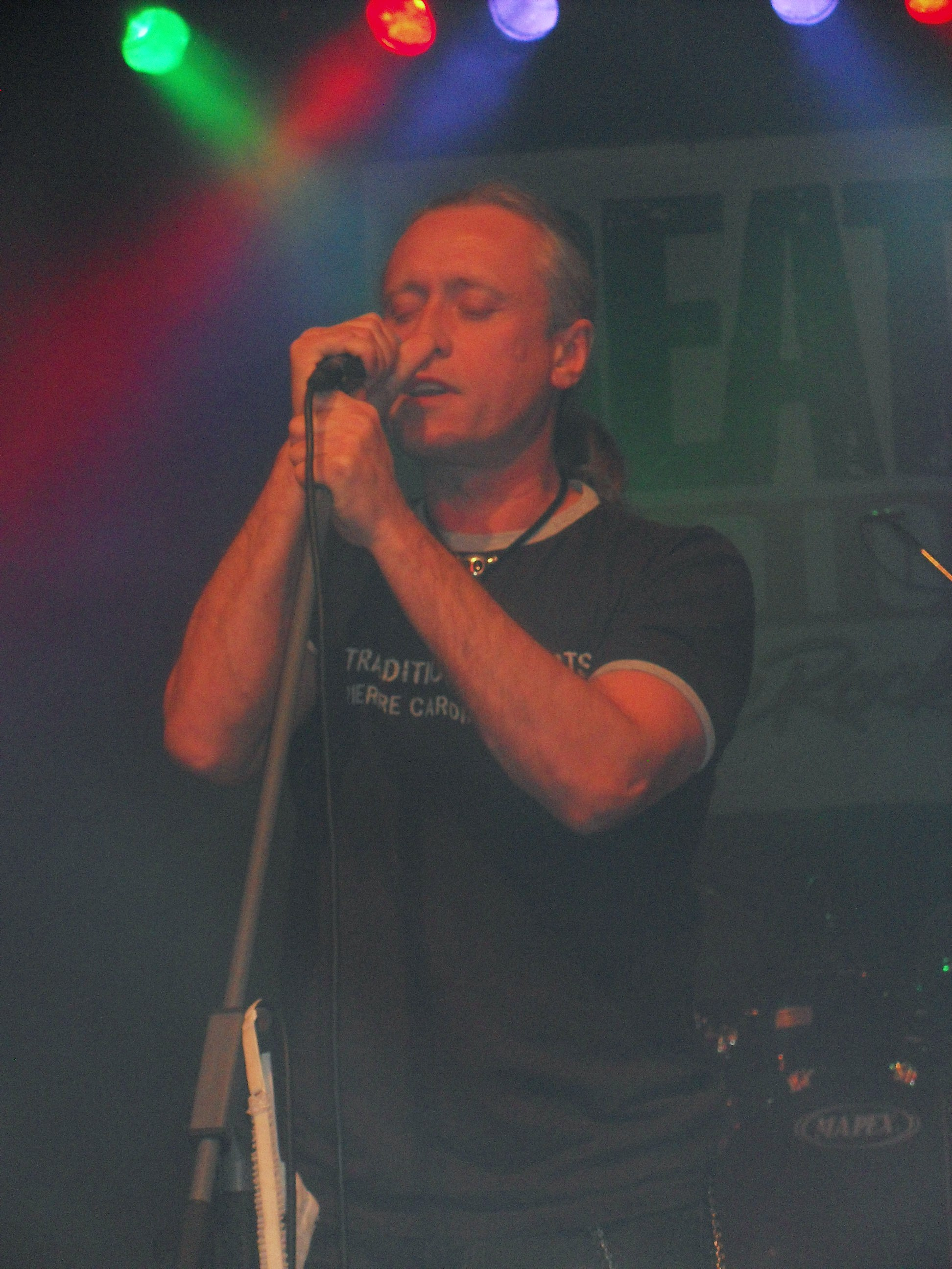 Vocalist Kamil Střihavka, Brno, Czech Republic